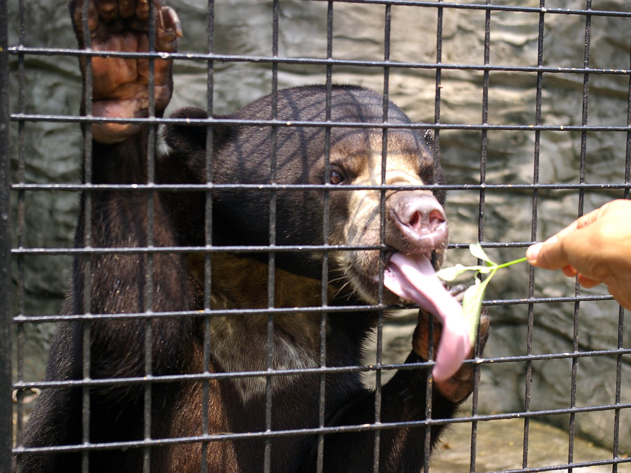 A Malayan Sun Bear extends its long tongue to reach the scrap of leafy plant being fed to it. Taken at Avilon Zoo, Rizal, Philippines.